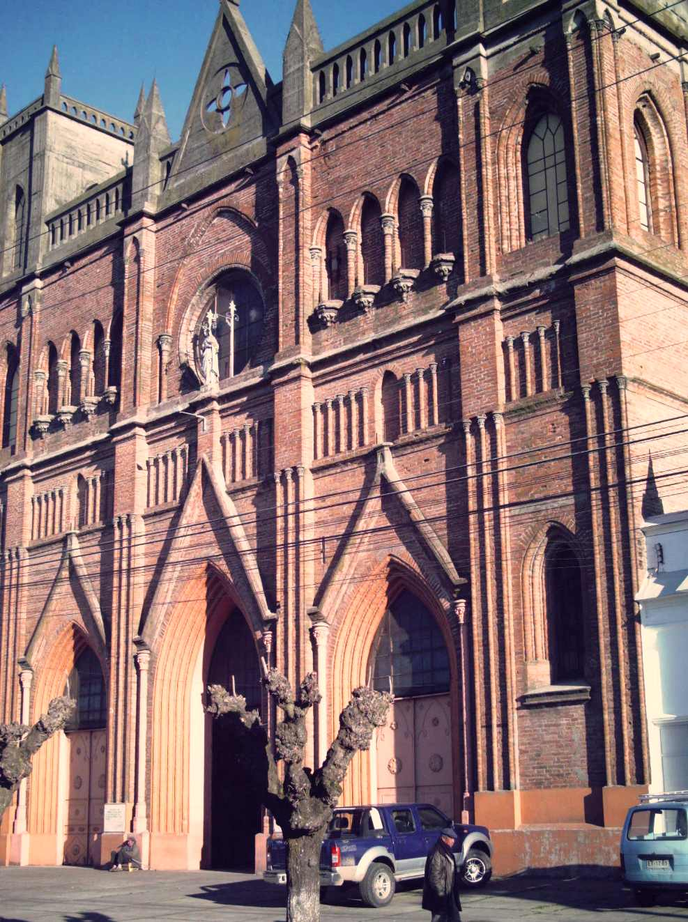 Church of the Heart of Mary in Linares (Chile)